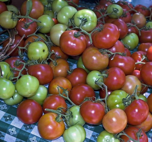 A table of tomatoes at Chicago's Green City Market.